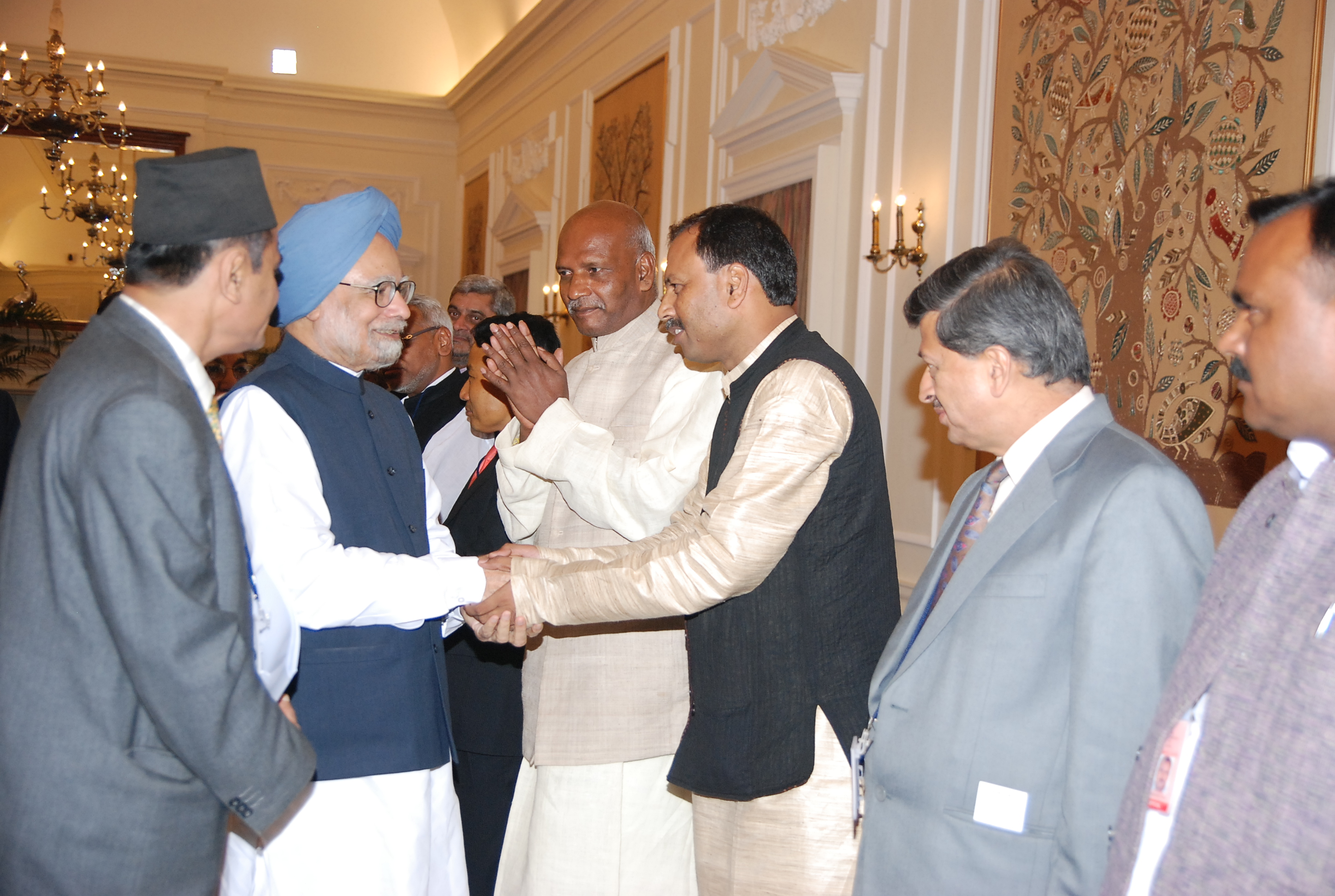 Anil Kumar Jha And Manmohan Singh